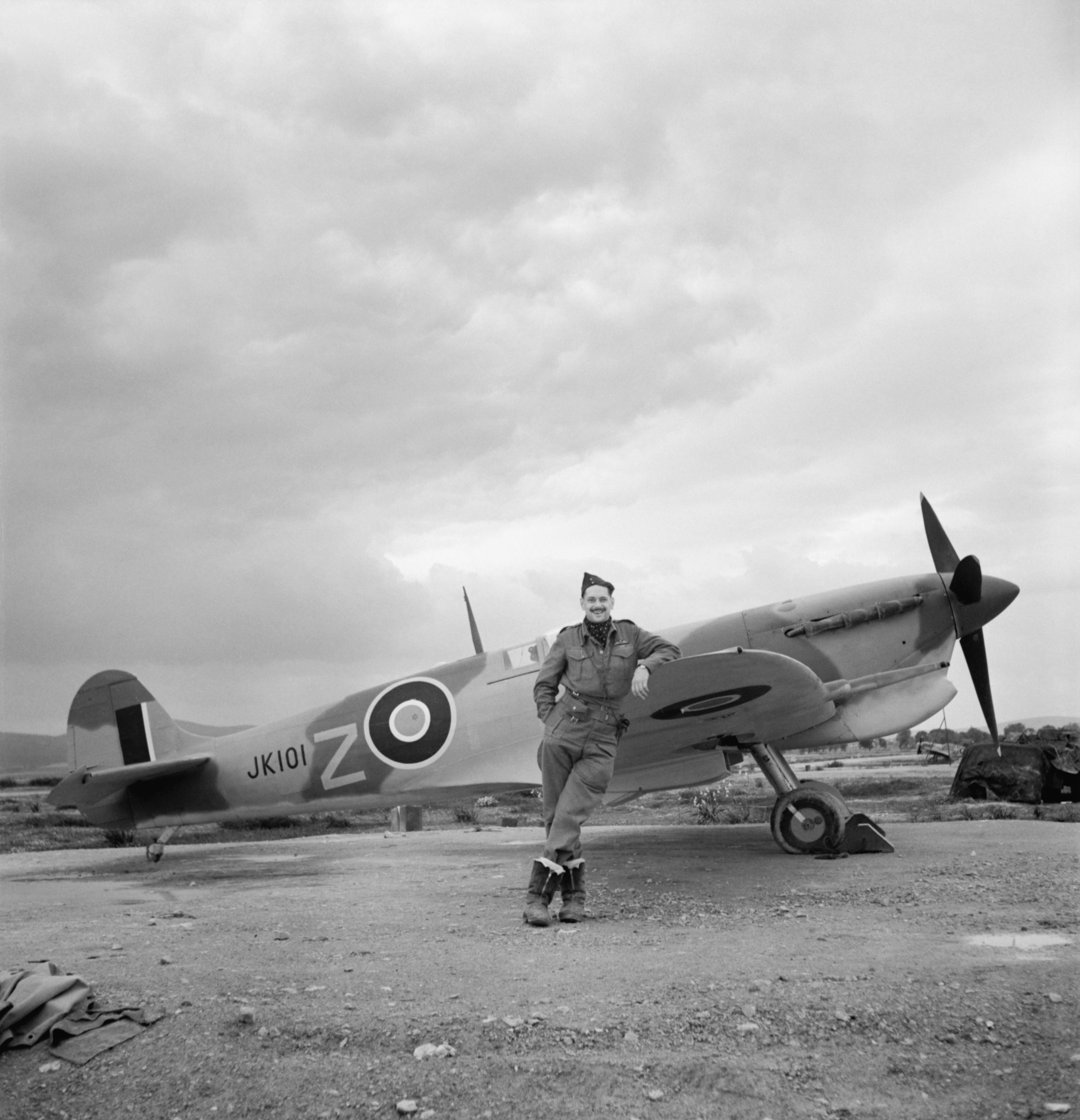 Royal Air Force Operations in the Middle East and North Africa, 1939-1943. Squadron Leader M Rook, Commanding Officer of No. 43 Squadron RAF, and noted as the tallest pilot serving in the RAF at the time, poses with his new Supermarine Spitfire Mark VC, JK101 'FT-Z', at Jemappes, Algeria.